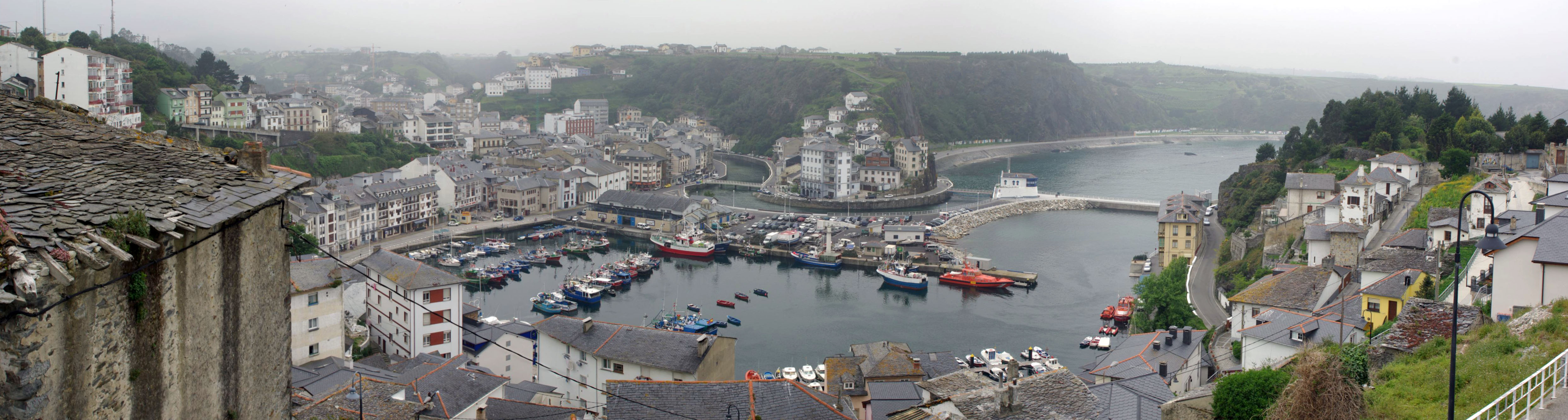 Port of Luarca, Asturias (Spain)